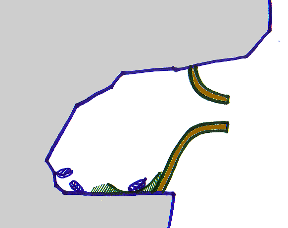 My drawing of cross-section through a Western Rock Nuthatch's nest cavity, based chiefly on Harrap, Simon; Quinn, David (1996). Tits, Nuthatches and Treecreepers. Christopher Helm. pp. 155–158. ISBN 0-7136-3964-4.